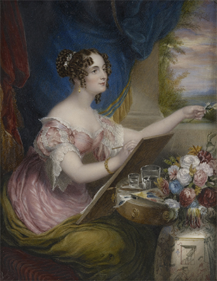 Portrait of Emily Pakenham (c.1795–1875), name before marriage Emily Stapleton, wife of Hercules Robert Pakenham.